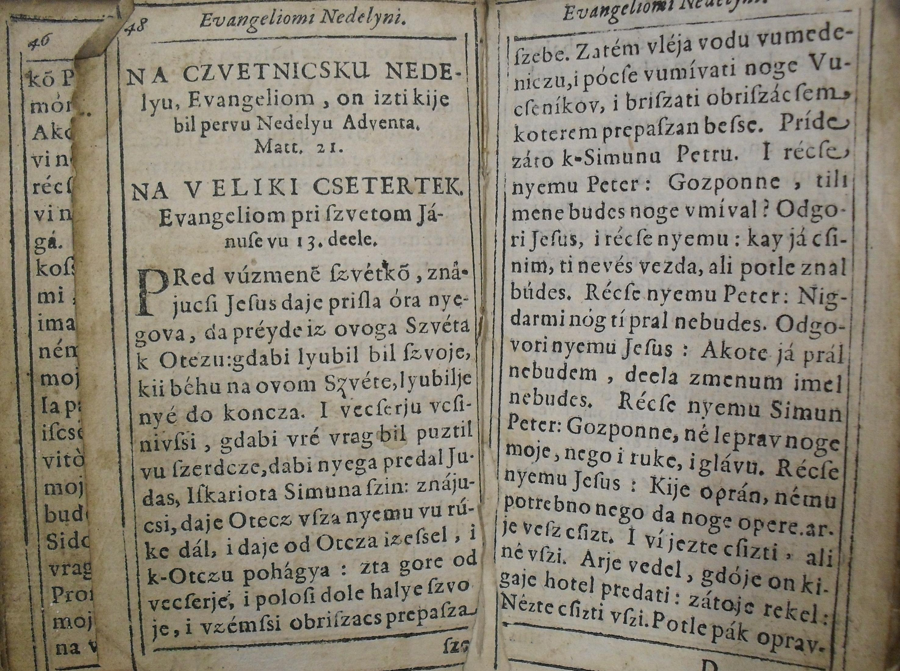 The Passion of Jesus Christ from Gospel of John in Kajkavian Croatian language in the Nikola Krajačević: Szveti evangeliomi (1651)